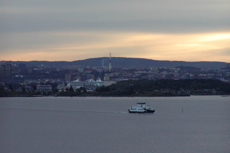 Photo of Oslo harbor and ferry